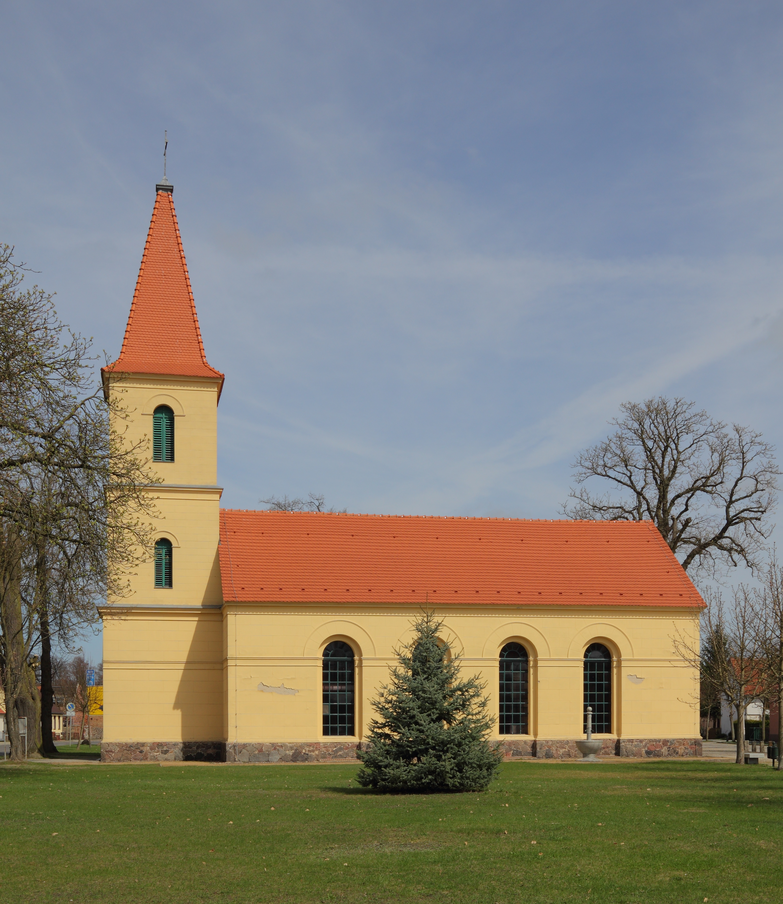 Village church in Briesen (Mark), Brandenburg, Germany